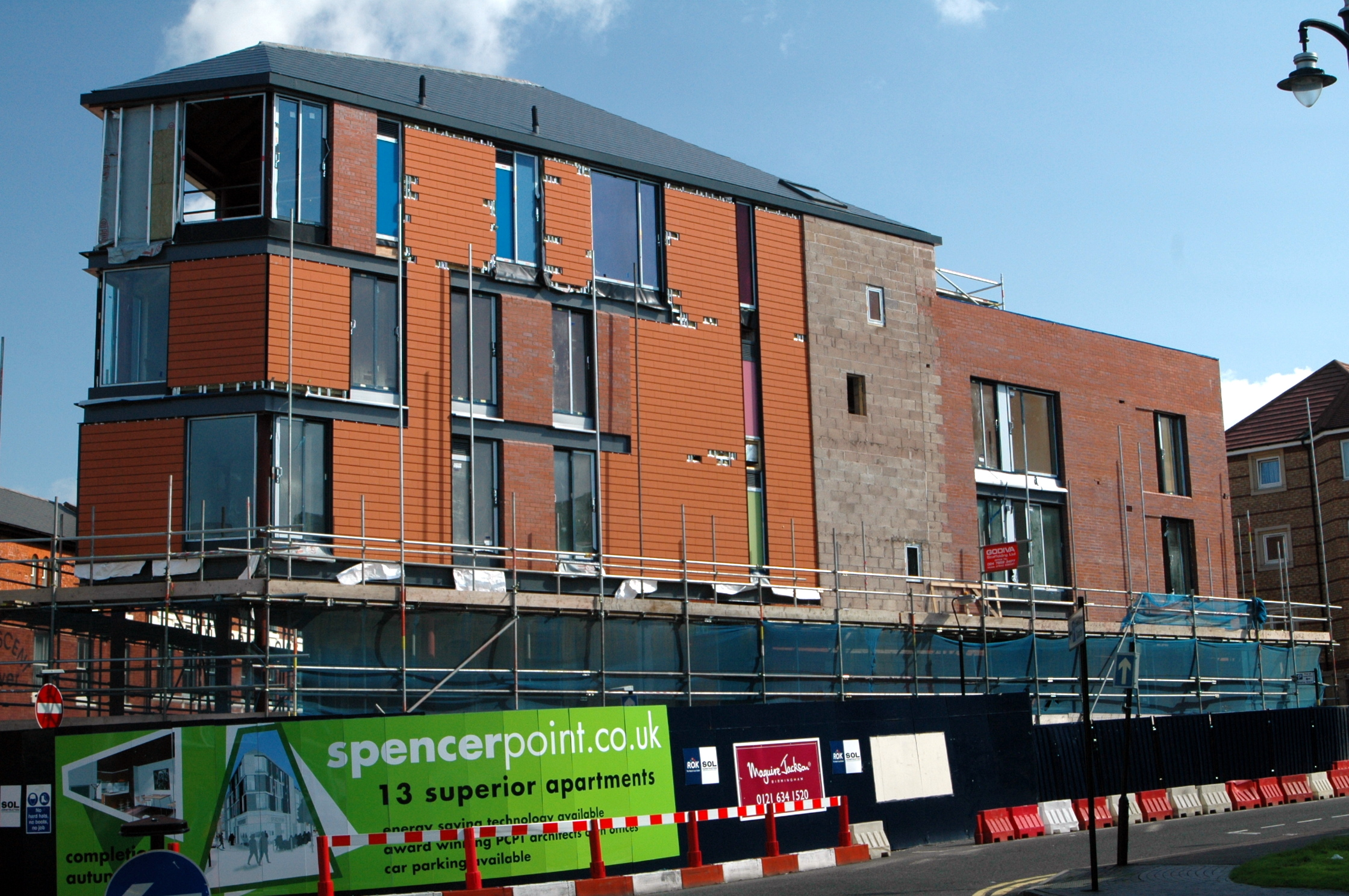 This is the Spencer Point development on Spencer Street in the Jewellery Quarter, Birmingham.